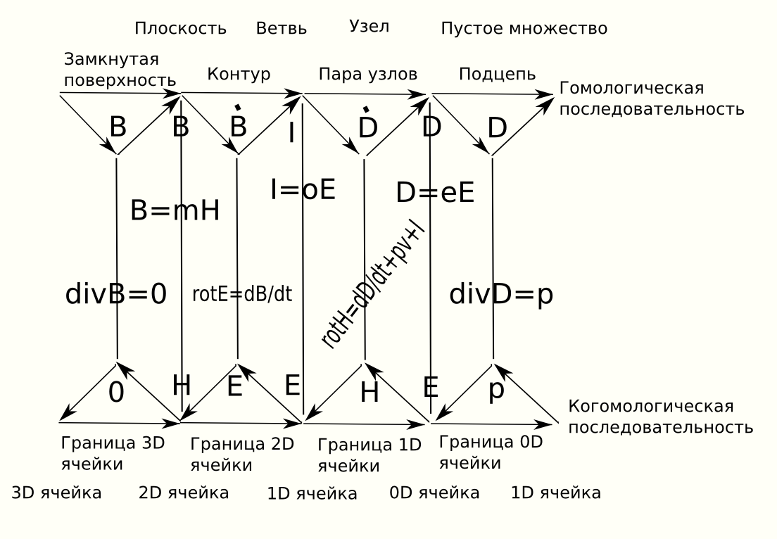 Kron diagram for system for physical quantities